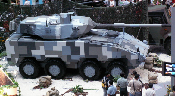 CM-32 Yunpao (Clouded Leopard) armoured vehicle in mobile gun configuration with a 105 mm gun.